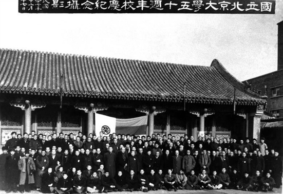 50th Anniversary, Peking University